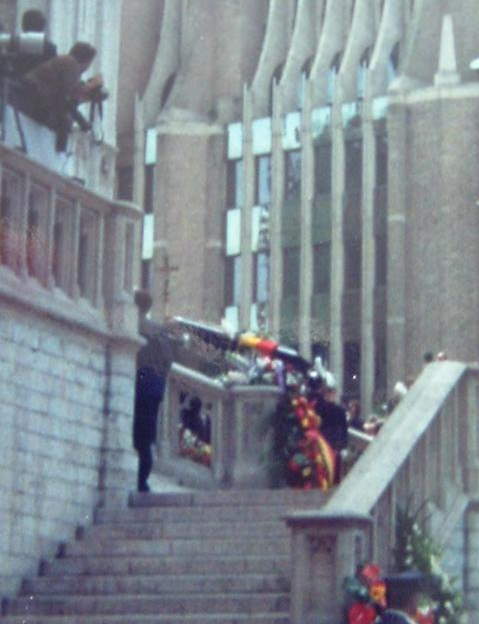 Coffin of Boudewijn, Belgium King, after the service in church St. Goedele, Brussels